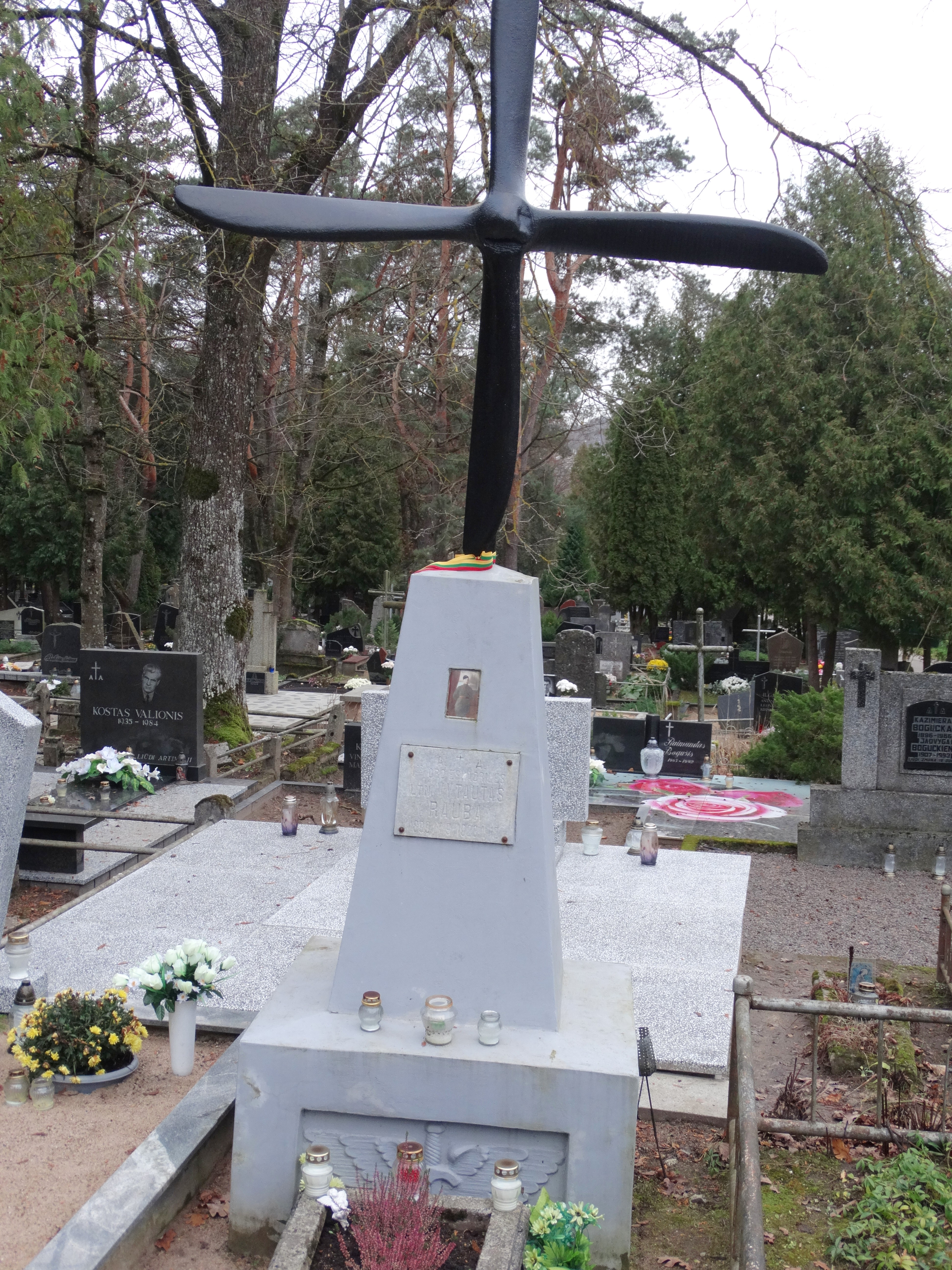 Tomb of Vytautas Rauba, pilot, Eiguliai cemetery, Lithuania